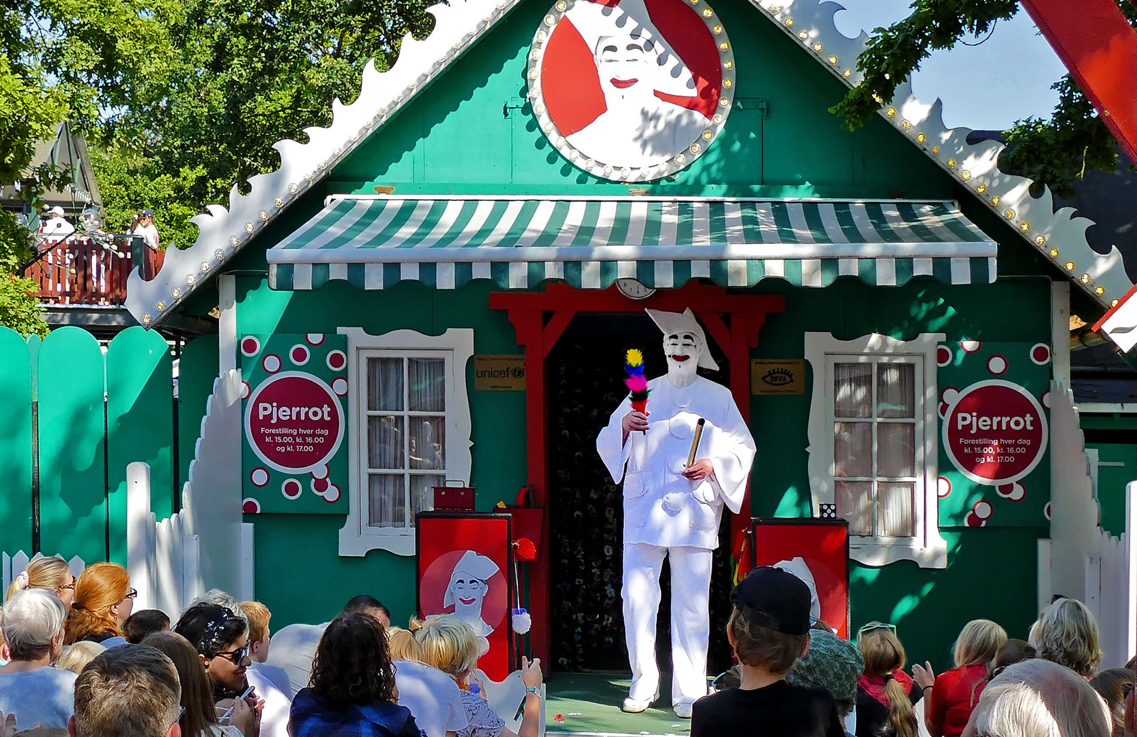 Pierrot as "Pjerrot" performing at Dyrehavesbakken, near Copenhagen, Denmark